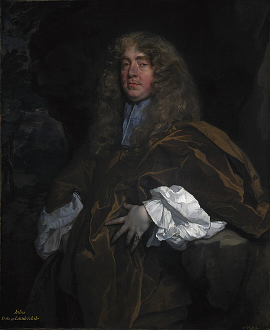 John Maitland, 1st Duke of Lauderdale (1616-1682), Secretary of State for Scotland under Charles II